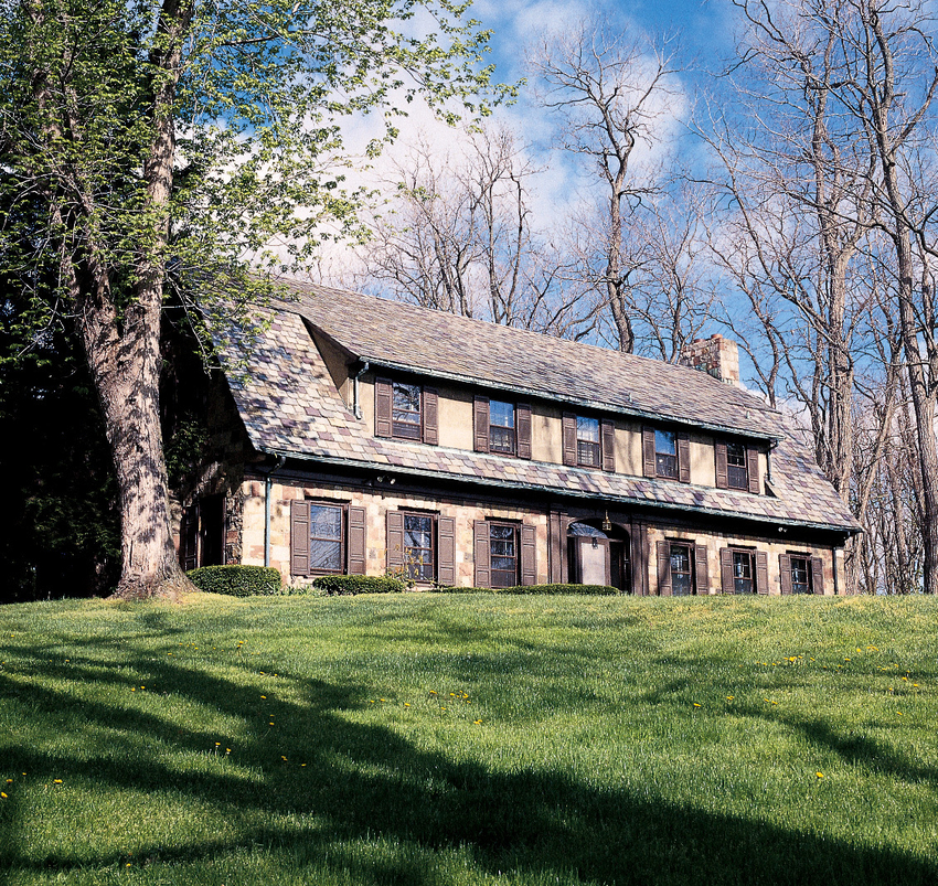 French House at Nazareth College